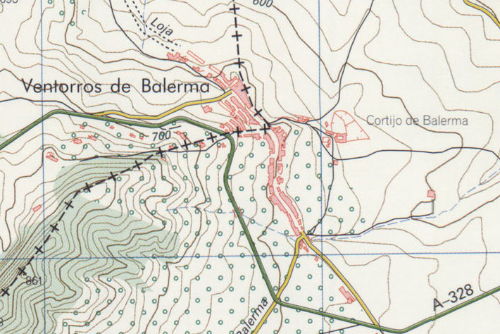 Fragment 1007c4 of the National Topographic Map of Spain in 1999 at a scale of 1:25000 printed and scanned with a resolution of 250 ppi. It shows Villanueva de Tapia.